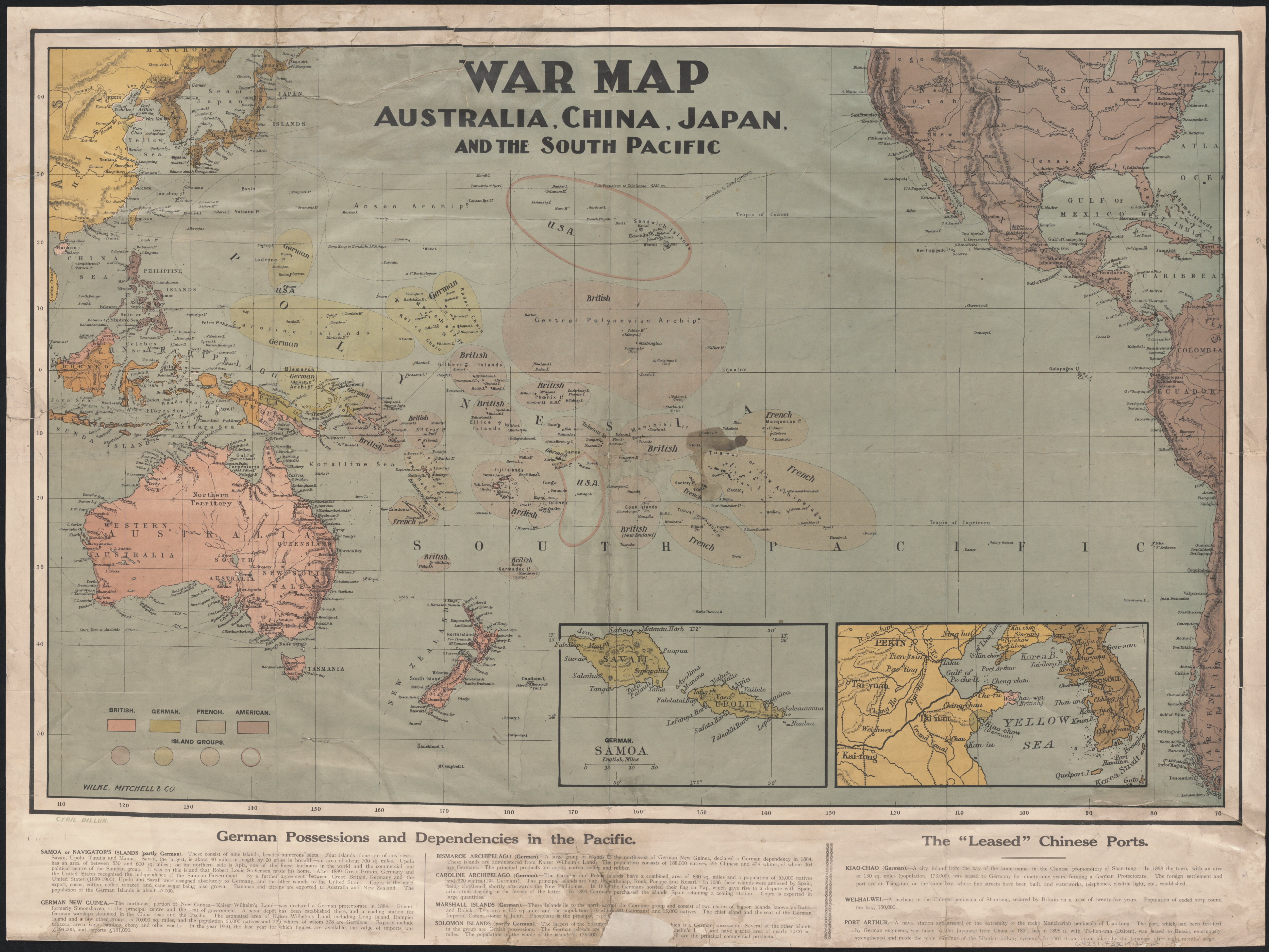 Australian War map published between 1914 and 1918 with an emphasis on German possessions in the Pacific (German Samoa) and in China. The map shows the area of influence (British, French, USA, German...), although there are some errors : Wallis and Futuna were under French protectorate and not British ; Niue ("Savage island") was under British rule, not American. Nauru ("Pleasant I.") was conquered in 1914 by Australian troops from the Germans.